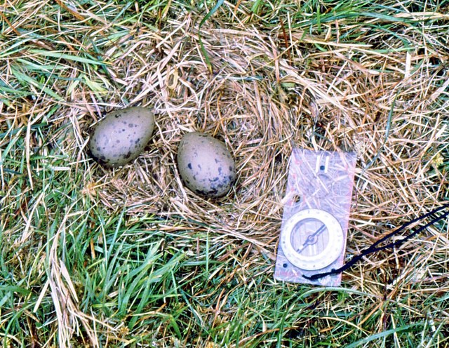 The eggs of the Great Skua in Glen Mor The Great Skua is also known as the Bonxie. A bloodthirsty killer, cunning, resourceful; much feared by all its victims.